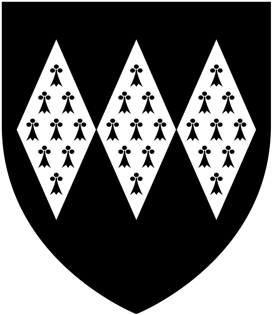 Armorials of Giffard of Brightley (Chittlehampton): Sable, three fusils conjoined in fesse ermine